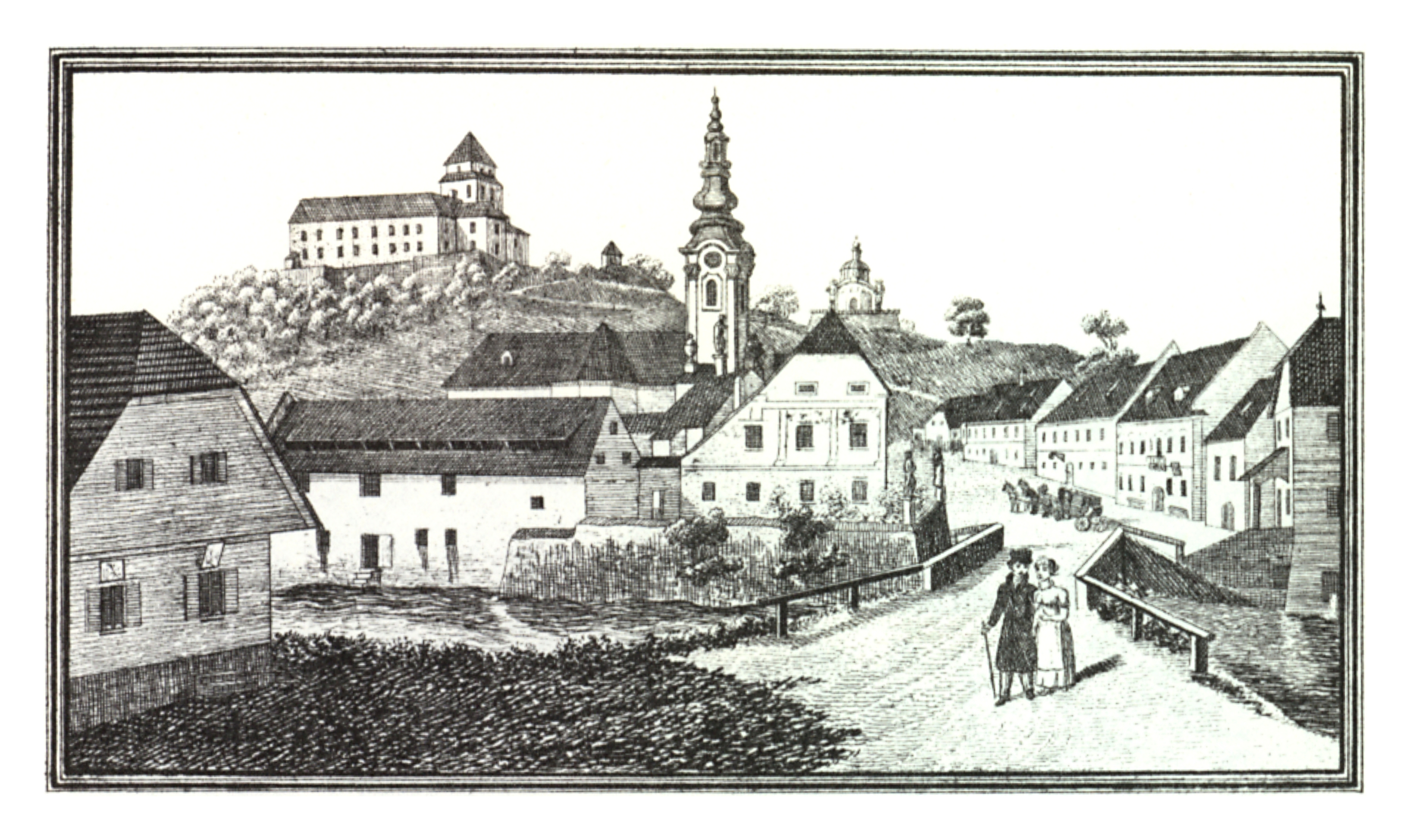 J. F. Kaiser - lithographirte Ansichten der Steyermärkischen Städte, Märkte und Schlösser Graz, 1825 Scanprojekt Community Projektbudget 2012 This scan or this PDF-file was created within the GLAM-project Bookscanning, supported by Wikimedia Germany and Wikimedia Austria as a part of the community-project to capture books, documents and pictures which are not eligible to copyright or for which the copyright has expired. This document describes or depicts an object which is located in Austria today. Send requests for uncompressed scans to Hubertl. This work is in the public domain in its country of origin and other countries and areas where the copyright term is the author's life plus 100 years or less. You must also include a United States public domain tag to indicate why this work is in the public domain in the United States. This file has been identified as being free of known restrictions under copyright law, including all related and neighboring rights.